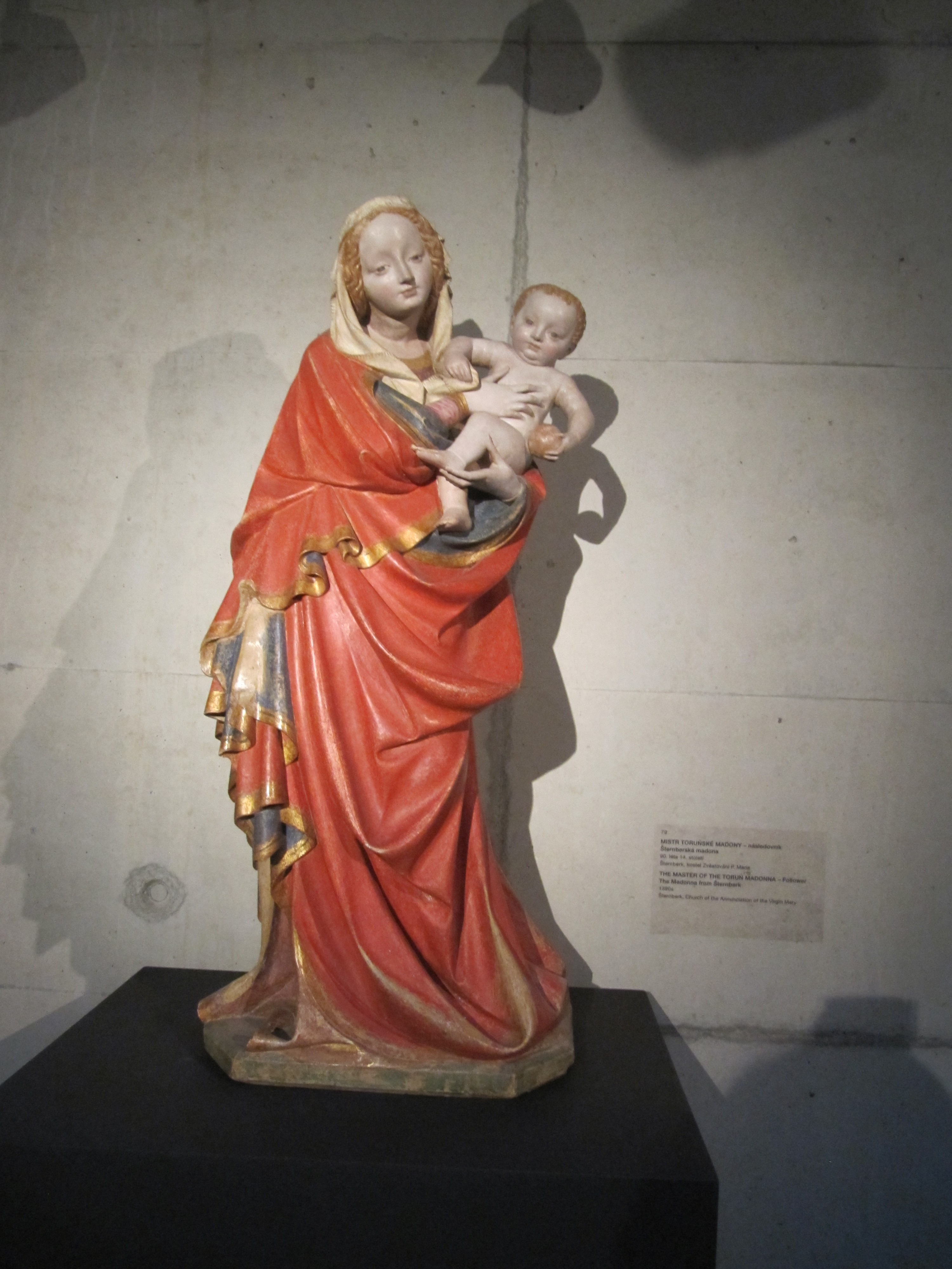 Olomouc, Czech Republic. Archdiocesan Museum.